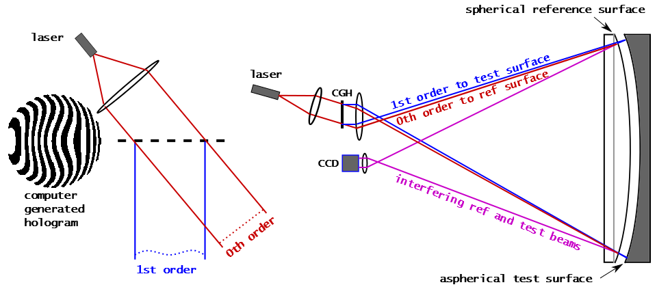 Optical testing with a Fizeau interferometer and a computer generated hologram.